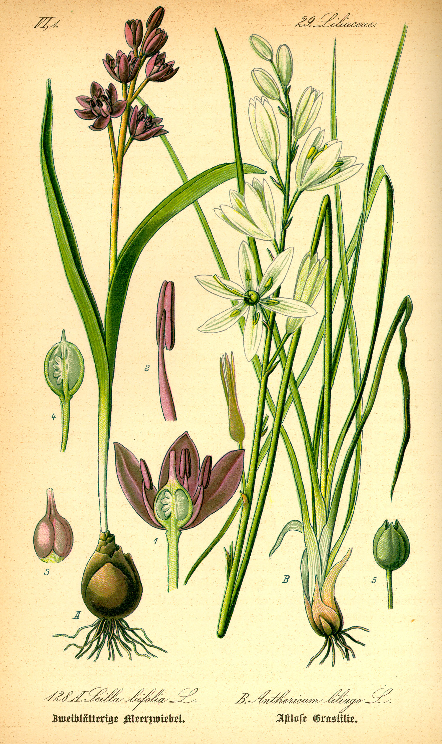 Name Scilla bifolia Family Hyacinthaceae Original book source: Prof. Dr. Otto Wilhelm Thomé Flora von Deutschland, �sterreich und der Schweiz 1885, Gera, Germany Permission granted to use under GFDL by Kurt Stueber